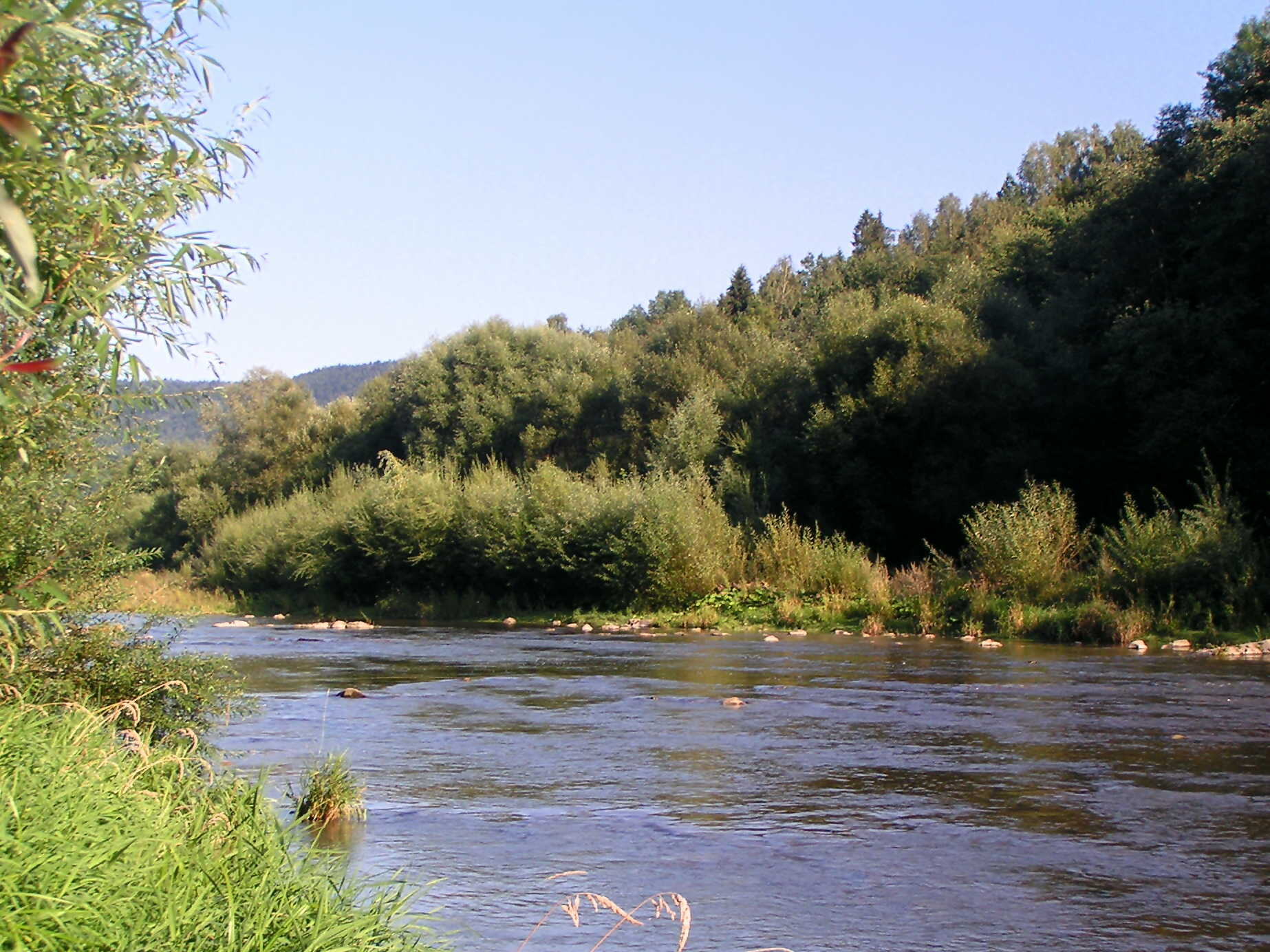 Skawa river in Maków Podhalański